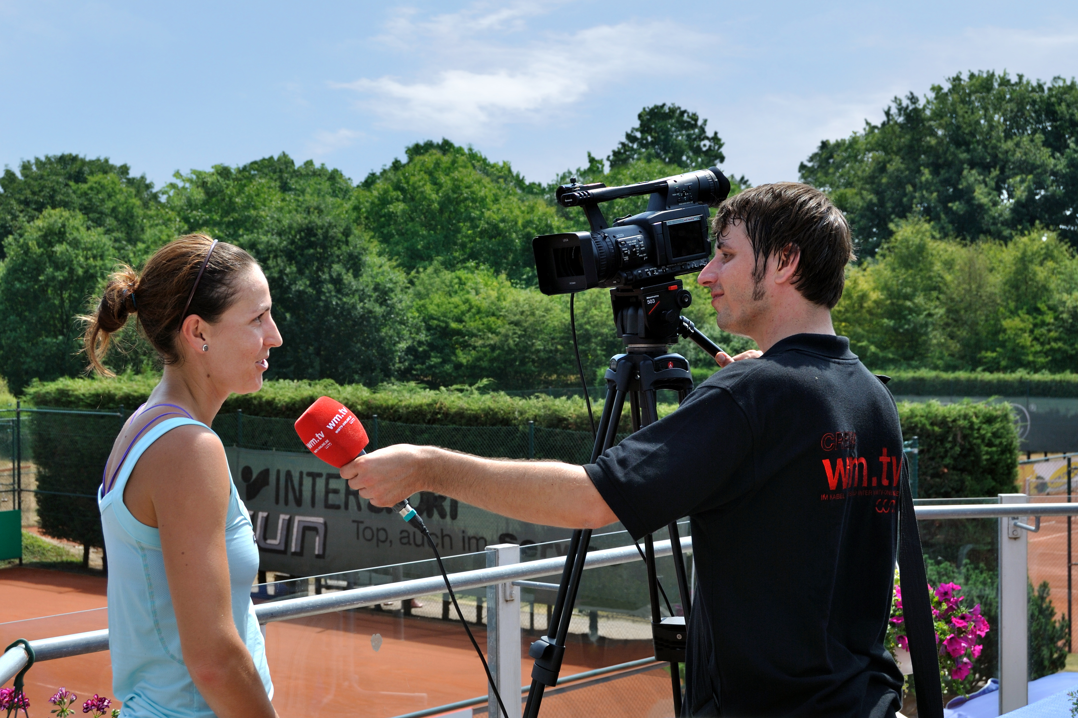 Arantxa Parra Santonja, player of TC WattExtra Bocholt, during an interview of a reporter of the local television channel wm.tv after a tennis match of the German Women's Tennis Federal League in Moers (North Rhine-Westphalia, Germany)This photograph was taken with a Nikon D3000